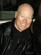 Photo taken by Anne Preston, March 6, 2006 --Apreston 05:06, 26 July 2006 (UTC) I release this photo to public domain and have permission from Lance Secretan to do so